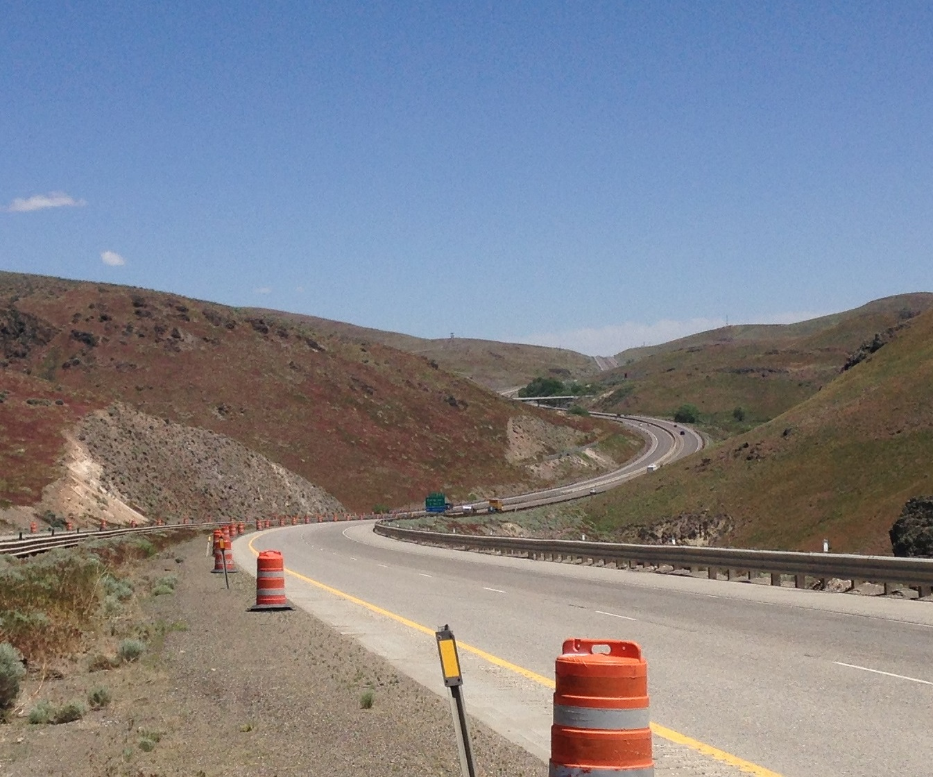 View east along Interstate 80 near milepost 267 in Eureka County, Nevada-cropped